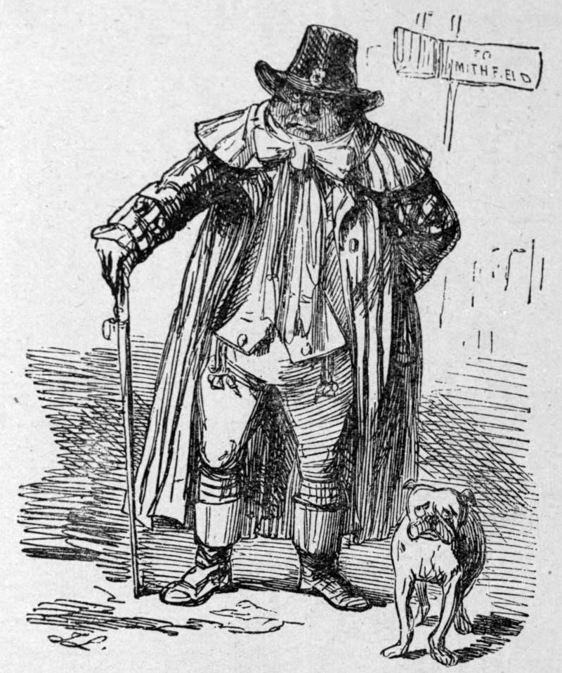 A French depiction of an Englishman. "Milord. Godam! Rosbif! I shall sell my wife at Smithfield. Dam!"